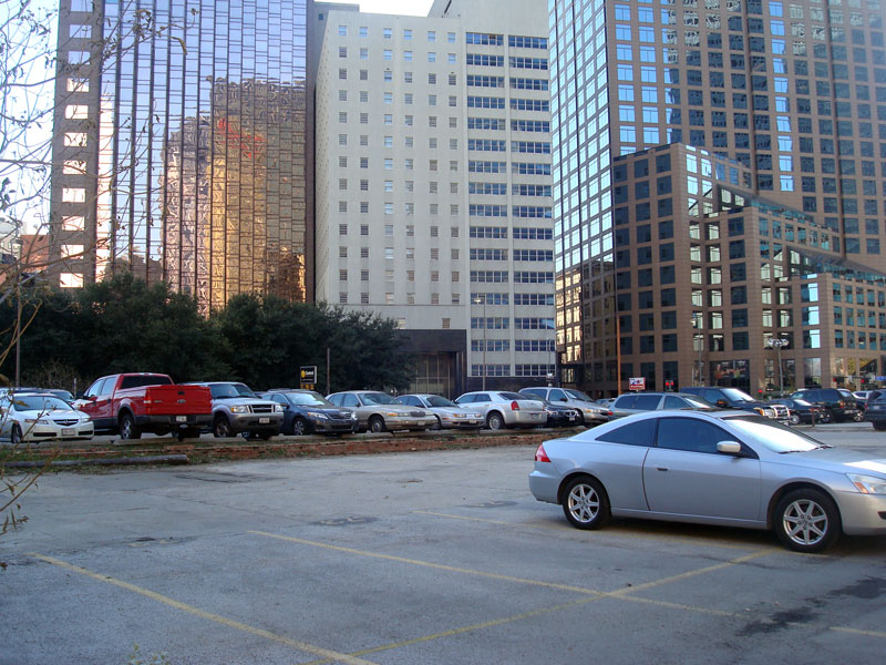 Future site of Pacific Plaza in downtown Dallas, Texas